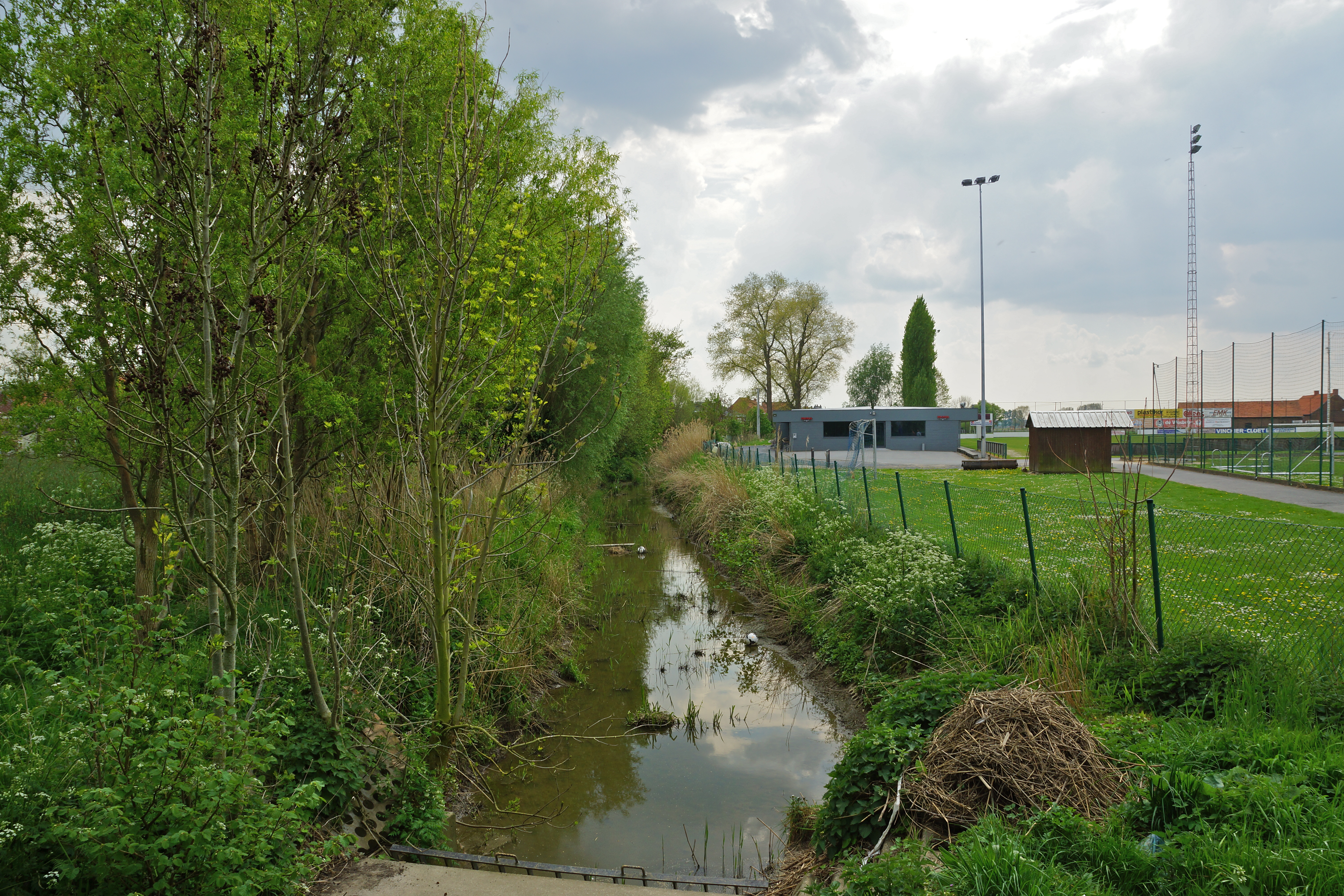 Staden (Oostnieuwkerke), Belgium: The river Mandel before desappearing at the west side of the village